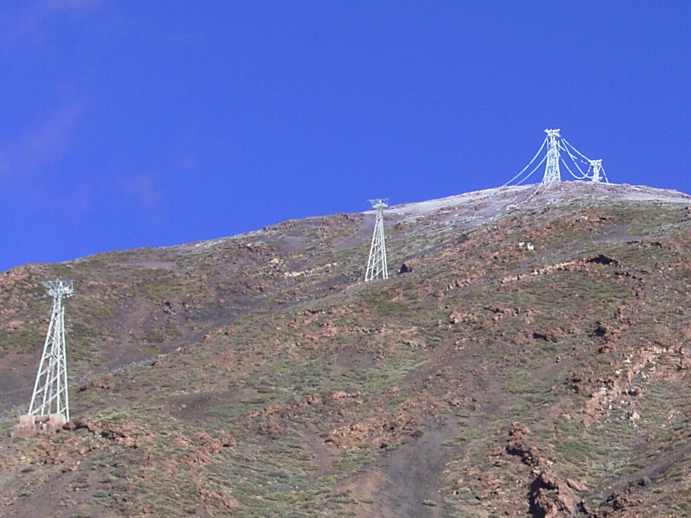 Ice Covered Cable Car Structure on Teide Volcano on Teneriffa